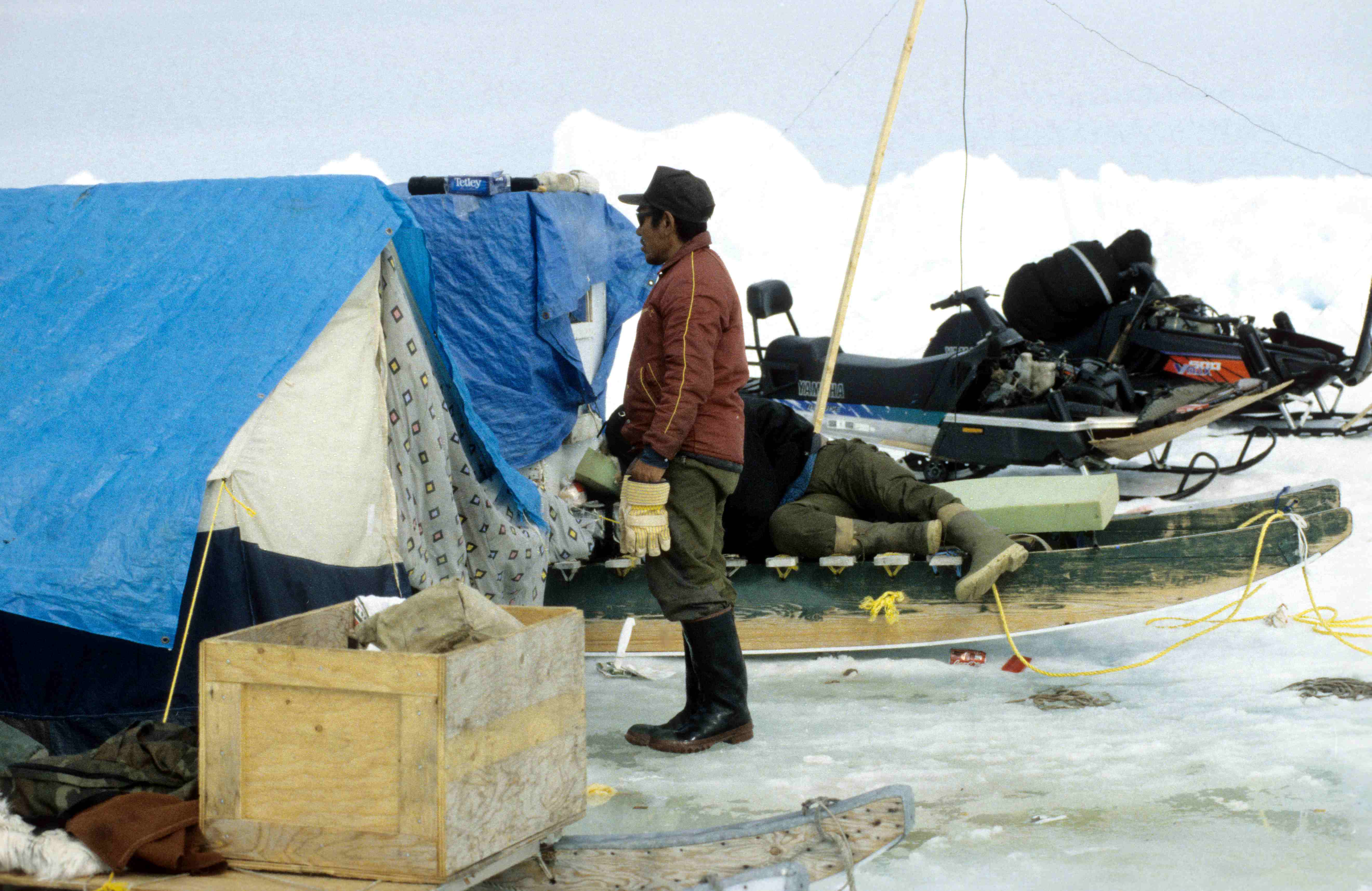 Inuit hunters’ camp at the floe edge (Nunavut Territory, Canada)